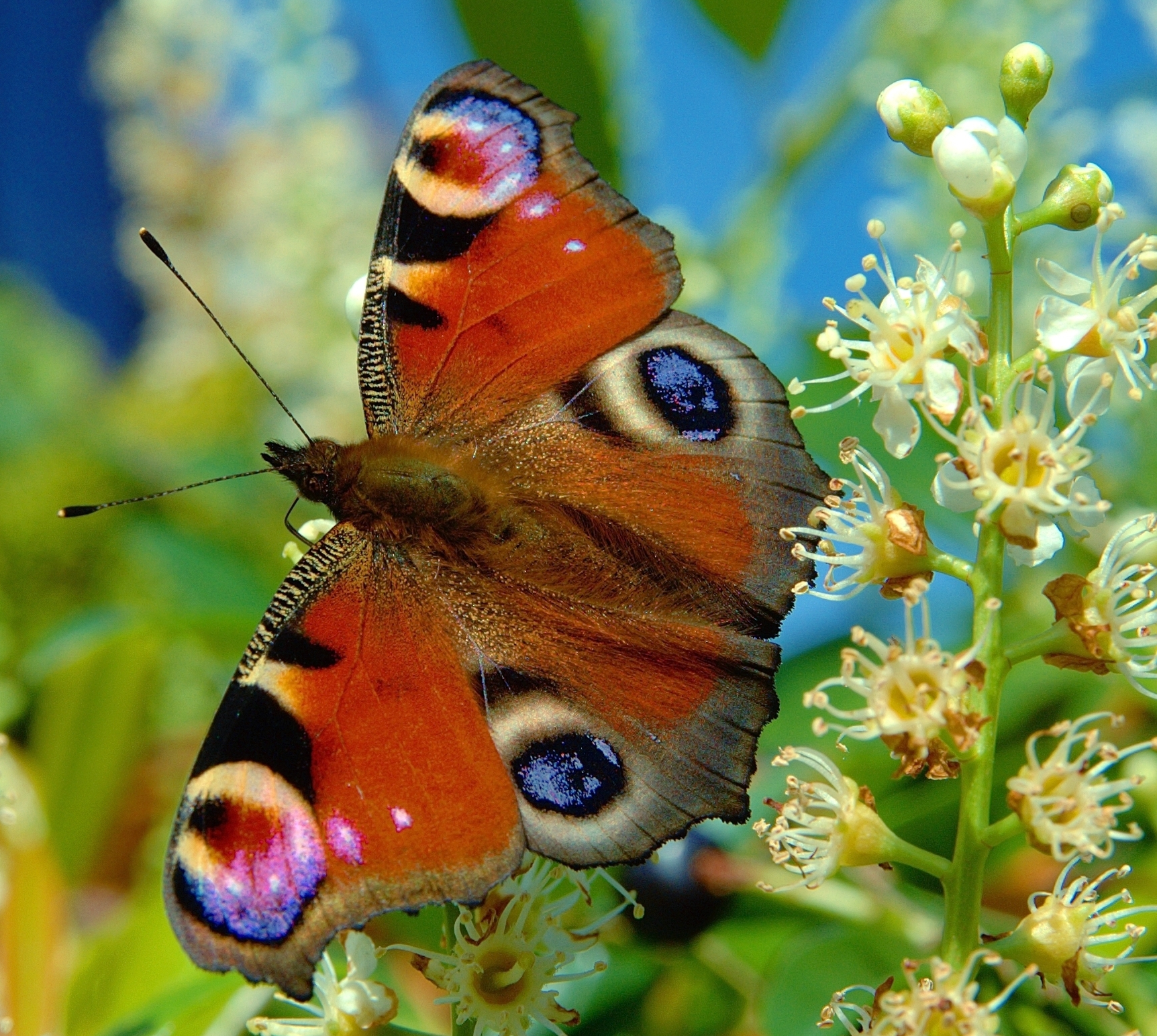 Butterfly Nymphalis io on the flowers of Prunus laurocerasus, in the countryside of Hamois, BelgiumEsperanto: Papilio sur floro de Prunuso